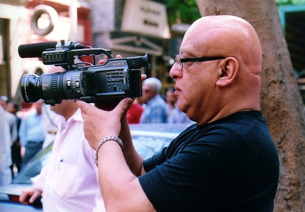 Egyptian film director Khairy Beshara shooting, using his digital camera